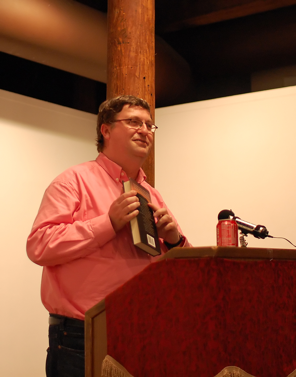 Andy Duncan South Street Seaport 2008-04-01